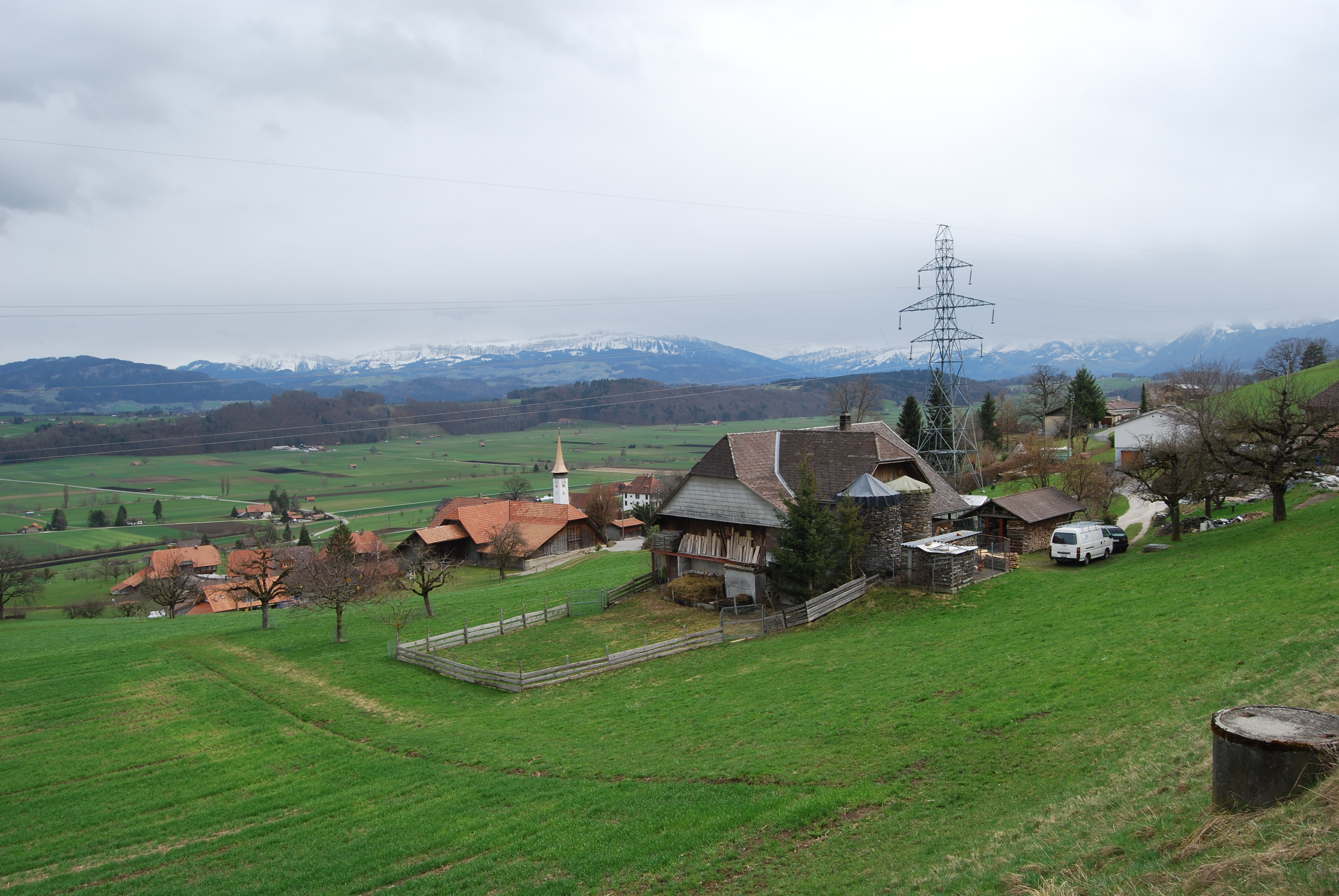 Kirchenthurnen, canton of Bern, SwitzerlandEsperanto: Kirchenthurnen, Kantono Berno, Svislando